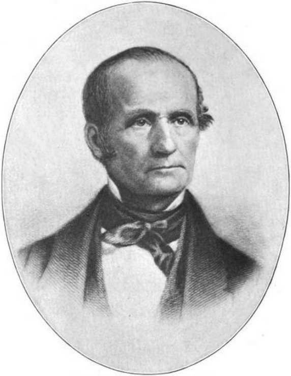 Portrait of Alfred Kelley, probably about 1851. Kelley was an attorney in Cleveland, Ohio, in the United States. He is known as the "Father of the Ohio & Erie Canal" for his successful legislative attempt to establish the canal. He was the canal's first commissioner and oversaw its completion. He was the founding president of the Cleveland, Columbus, and Cincinnati Railroad (completed in 1851) and pushed for a state charter for the Cleveland, Painesville and Ashtabula Railroad (later known as the Lake Shore and Southern Michigan Railroad). His home in Columbus, Ohio, is on the National Register of Historic Places.